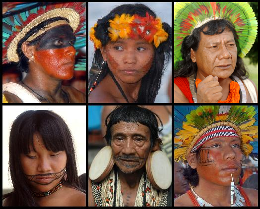 Compilation of pictures of Native Brazilians from the tribes Assurini, Tapirajé, Kaiapó, Kapirapé, Rikbaktsa and Bororo-Boe.